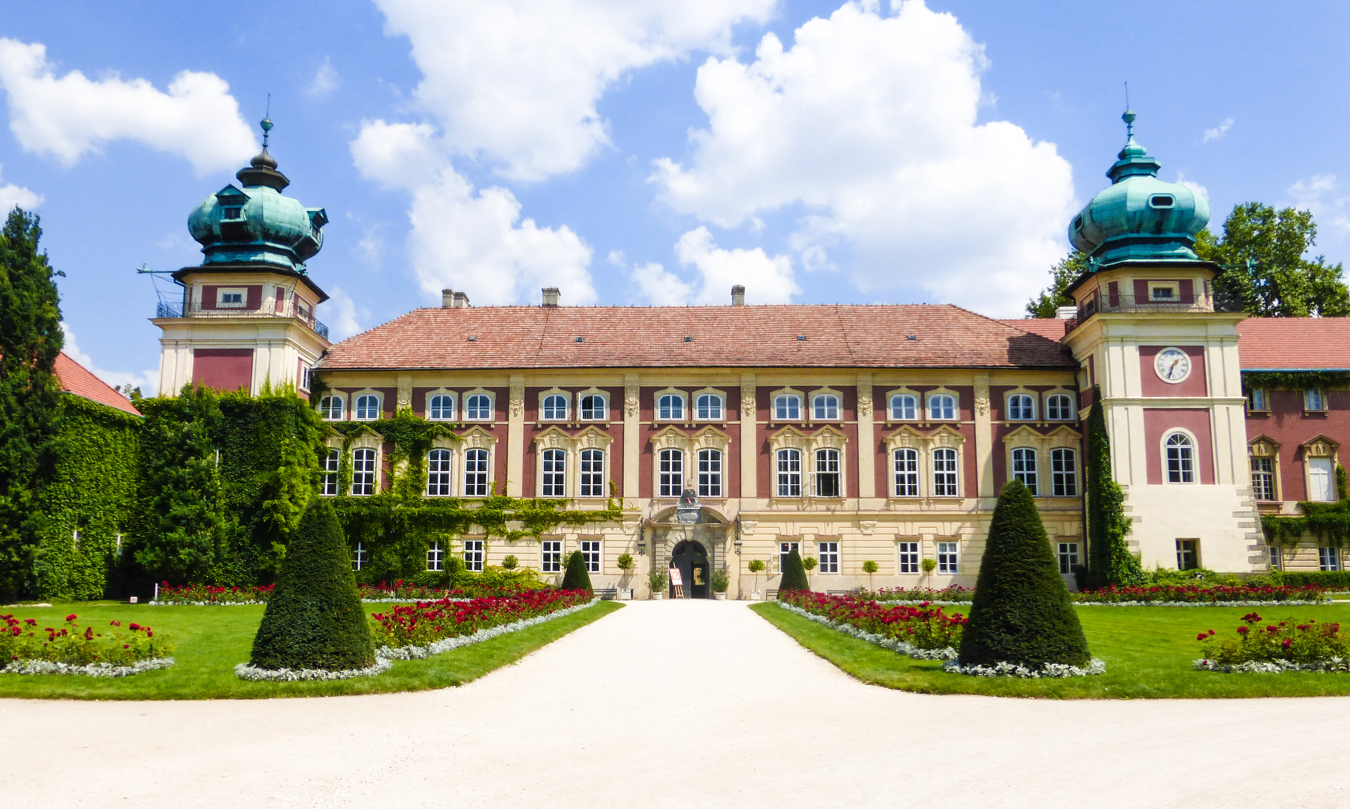 Image of the Łańcut Castle in Łańcut, Poland.